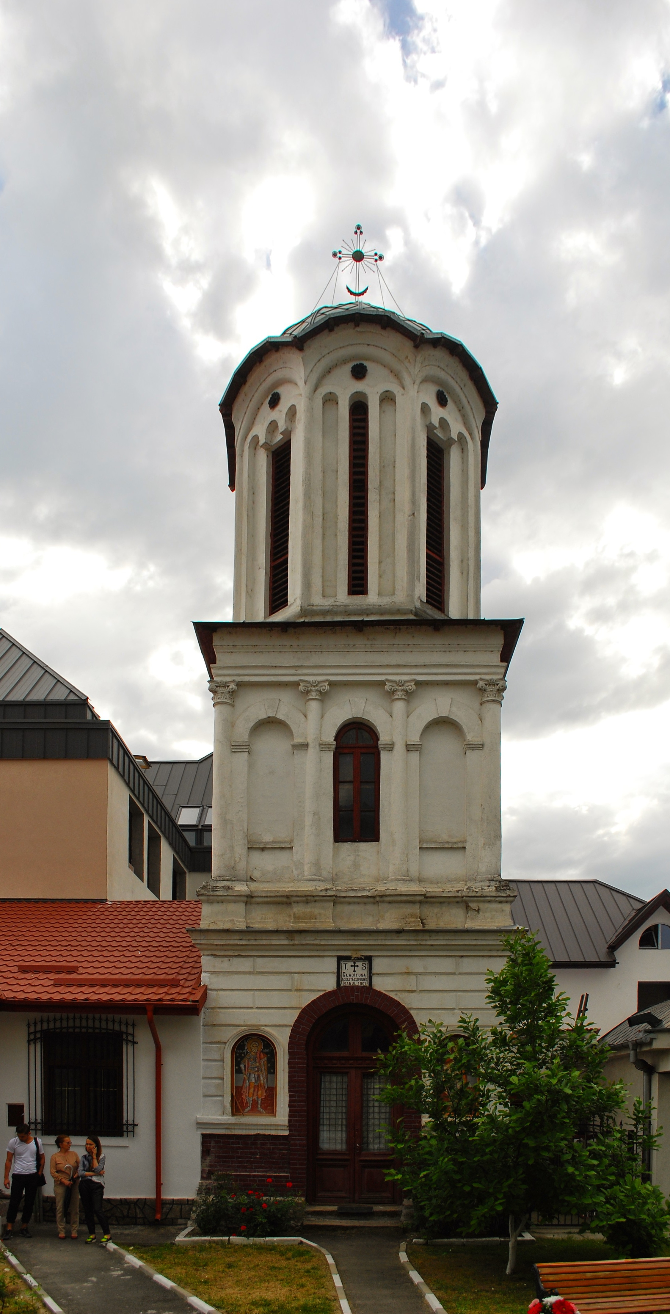 Belfry of All Saints' church in Râmnicu Vâlcea, RomaniaRomână: Clopotniţa bisericii Toţi Sfinţii din Râmnicu Vâlcea, România 02